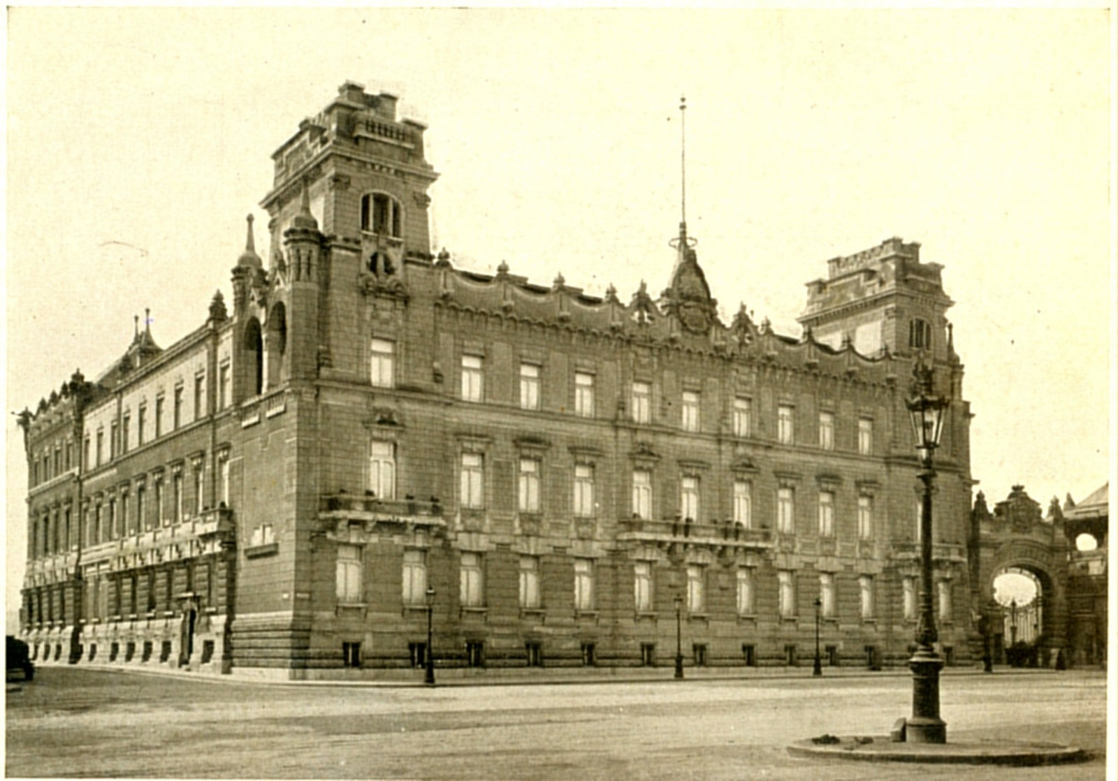 Palace of Archduke Joseph, ex Teleki-Apartment Palais, Facade overlooking Saint George Square in Buda Castle District, after renewal and reconstruction of 1902. Photo made 1906 by Mór Erdélyi